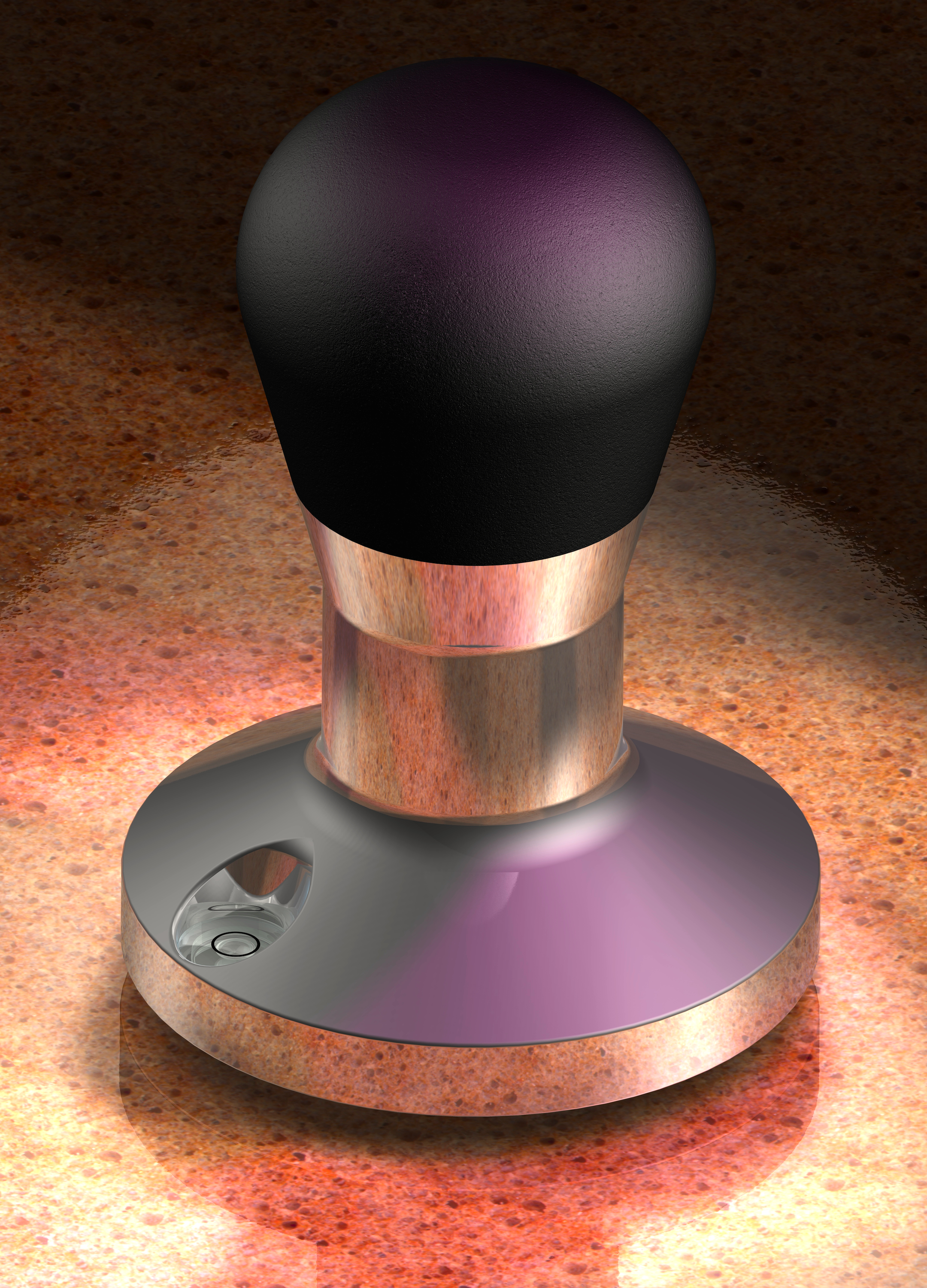 A CG image of a high-end espresso coffee tamper. Modeled and ray traced using Ashlar-Vellum’s Cobalt